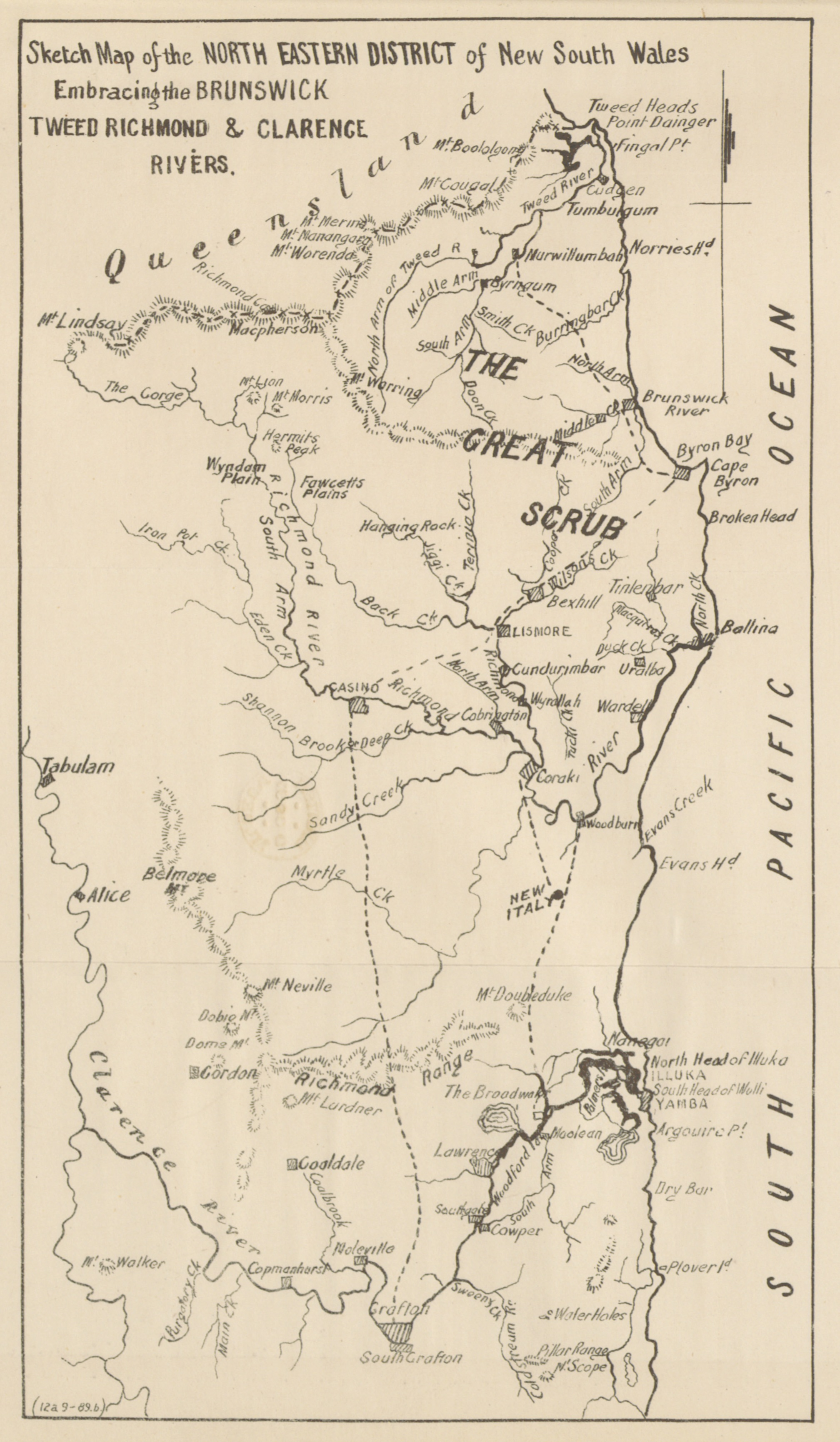 View this map on the BL Georeferencer service. Image taken from: Title: "Richmond River District of New South Wales. New Italy. A brief sketch of a new and thriving colony, etc. [With a map.]" Author: CLIFFORD, Frederick Chudleigh. Shelfmark: "British Library HMNTS 10491.ff.23." Page: 41 Place of Publishing: Sydney Date of Publishing: 1889 Publisher: C. Potter Issuance: monographic Identifier: 000725591 Explore: Find this item in the British Library catalogue, 'Explore'. Download the PDF for this book (volume: 0) Image found on book scan 41 (NB not necessarily a page number) Download the OCR-derived text for this volume: (plain text) or (json) Click here to see all the illustrations in this book and click here to browse other illustrations published in books in the same year. Order a higher quality version from here.